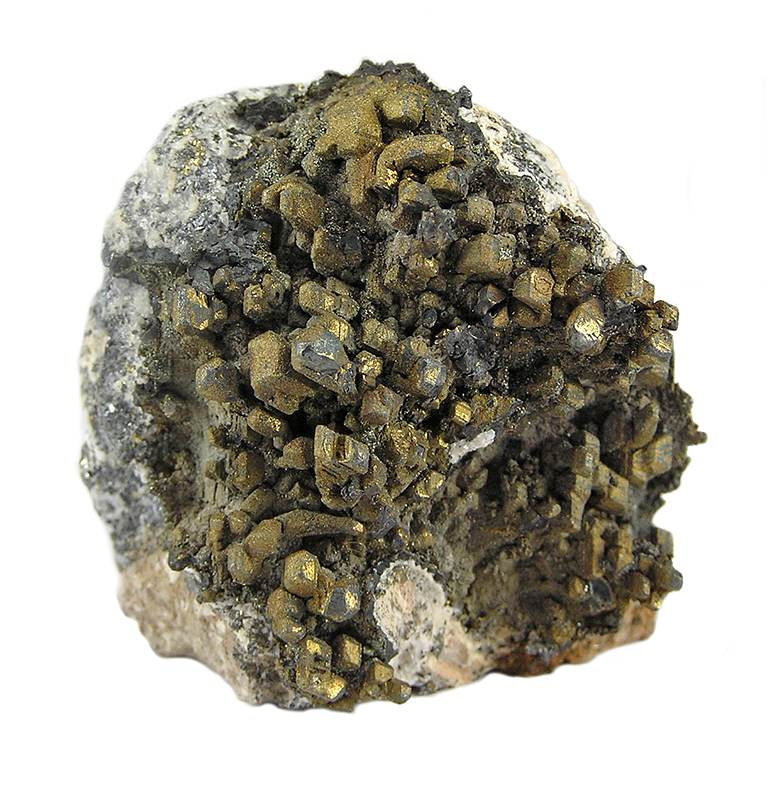 Argentite Locality: Banská Štiavnica (Selmecbánya; Schemnitz), Banská Štiavnica Mining District, Štiavnica Mts, Banská Bystrica Region, Slovakia (Locality at ) Size: miniature, 4.3 x 4.3 x 2.2 cm Argentite Incredible rich specimen of argentite crystals on matrix to 4mm. The argentite crystals are attractively draped with a nice gold layer of pyrite. These crystals have interesting , sharp form and are nicely spread across the matrix. The pyrite is preferentially coating the argentite, providing an interesting look to the piece; one side gold, one side metallic-grey. This is another super-rare European classic which is almost never seen on the US market today. Old Schortmann�s Minerals label comes with piece. That was a lot of money 60 years ago!